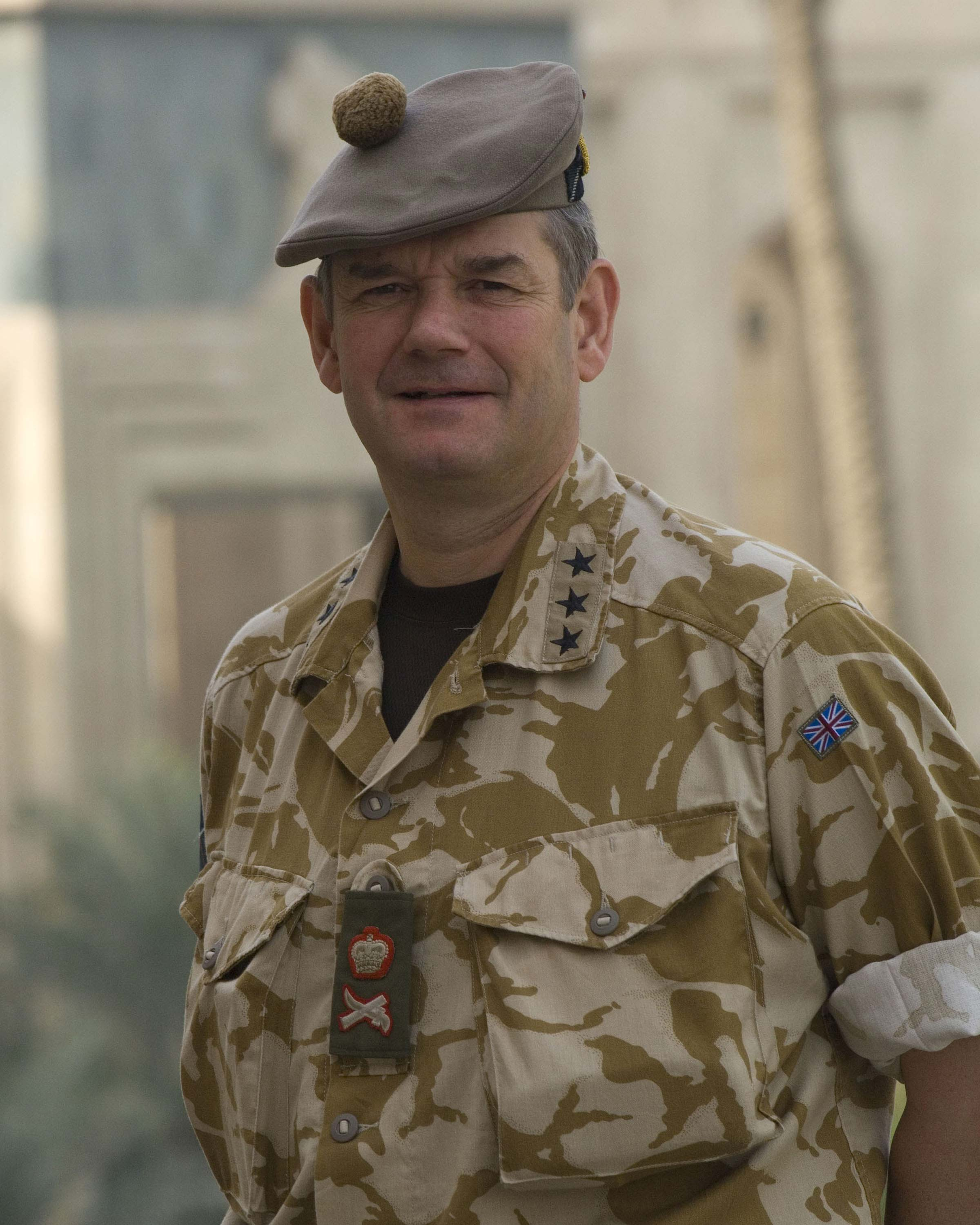 Portrait photograph of Lieutenant General John Cooper as Deputy Commander Multinational Force-Iraq, and Senior British Representative Iraq